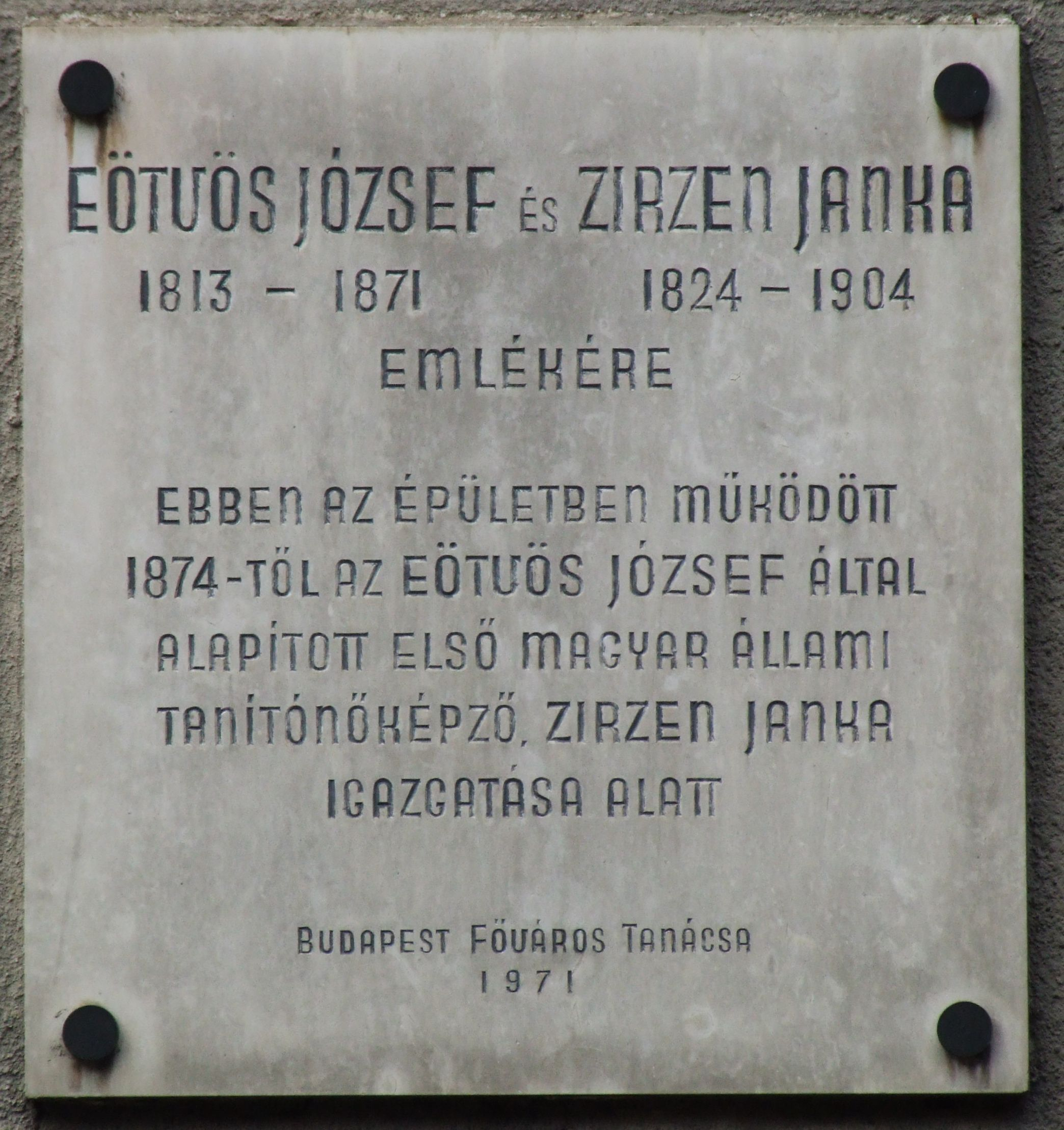 Commemorative plaque of József Eötvös and Janka Zirzen (Budapest District II, Csalogány Street No 43)